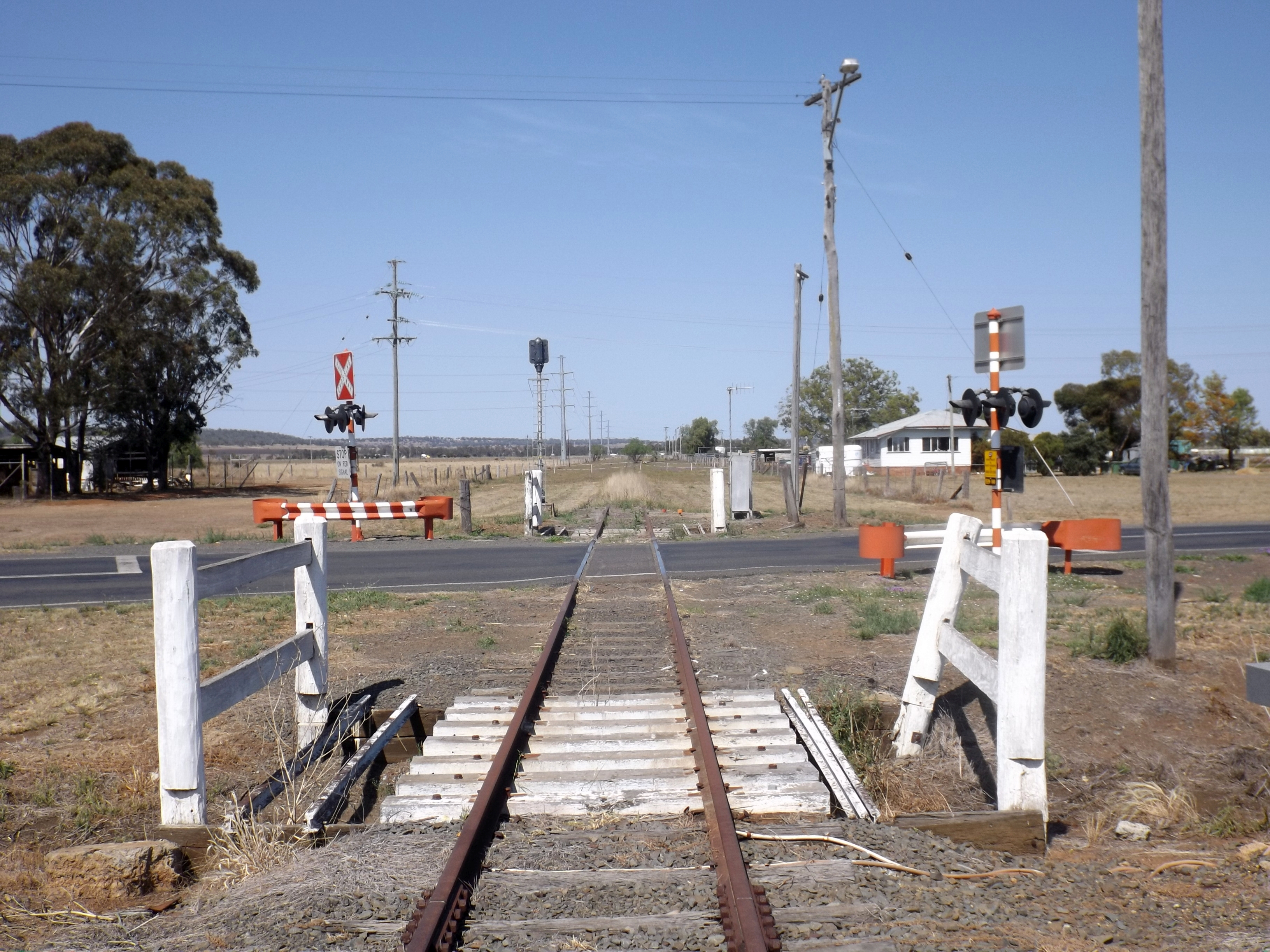 Photo of Cecil Plains railway line crossing Bridge Street at Oakey at Oakey, Queensland, Australia.